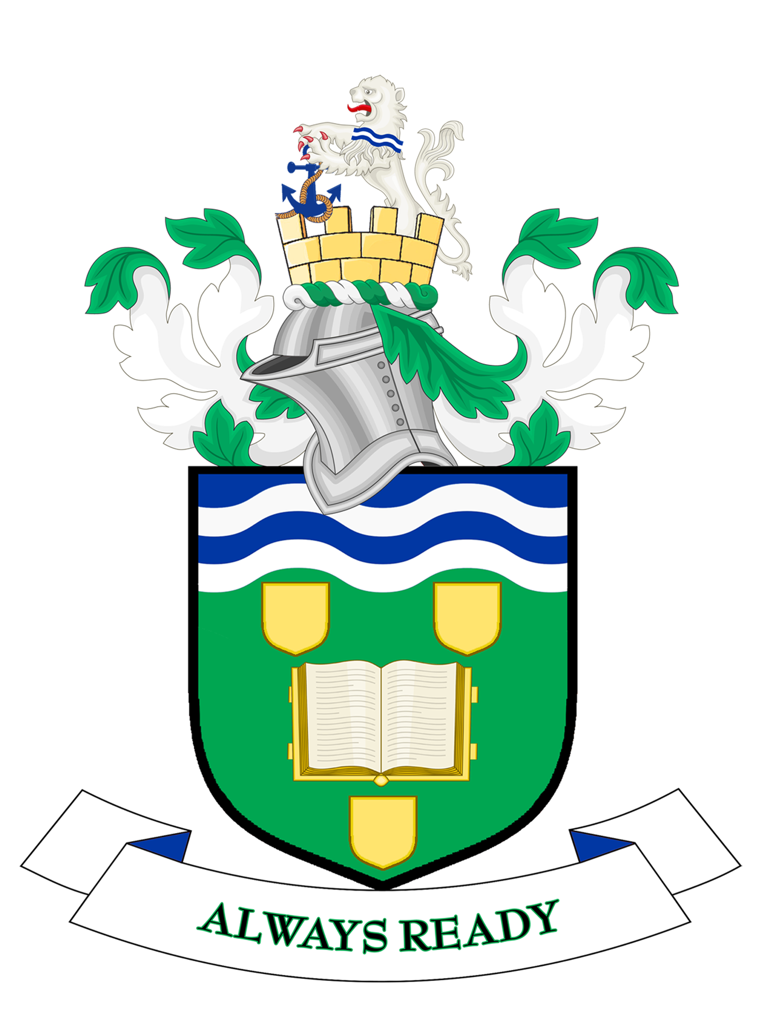 The Coat of arms of South Tyneside Metropolitan Borough Council, the local government authority for the Metropolitan Borough of South Tyneside, in Tyne and Wear, England. The blazon is:*ARMS: Vert an open Book proper bound and clasped between three Escutcheons Or a Chief wavy barry wavy of four Azure ans Argent.*CREST: On a Wreath Argent and Vert issuant from a Mural Crown Or a demi-Lion Argent gorged with a Collar wavy Azure charged with a Bar wany Argent and holding between the paws an Anchor Azure roped proper.